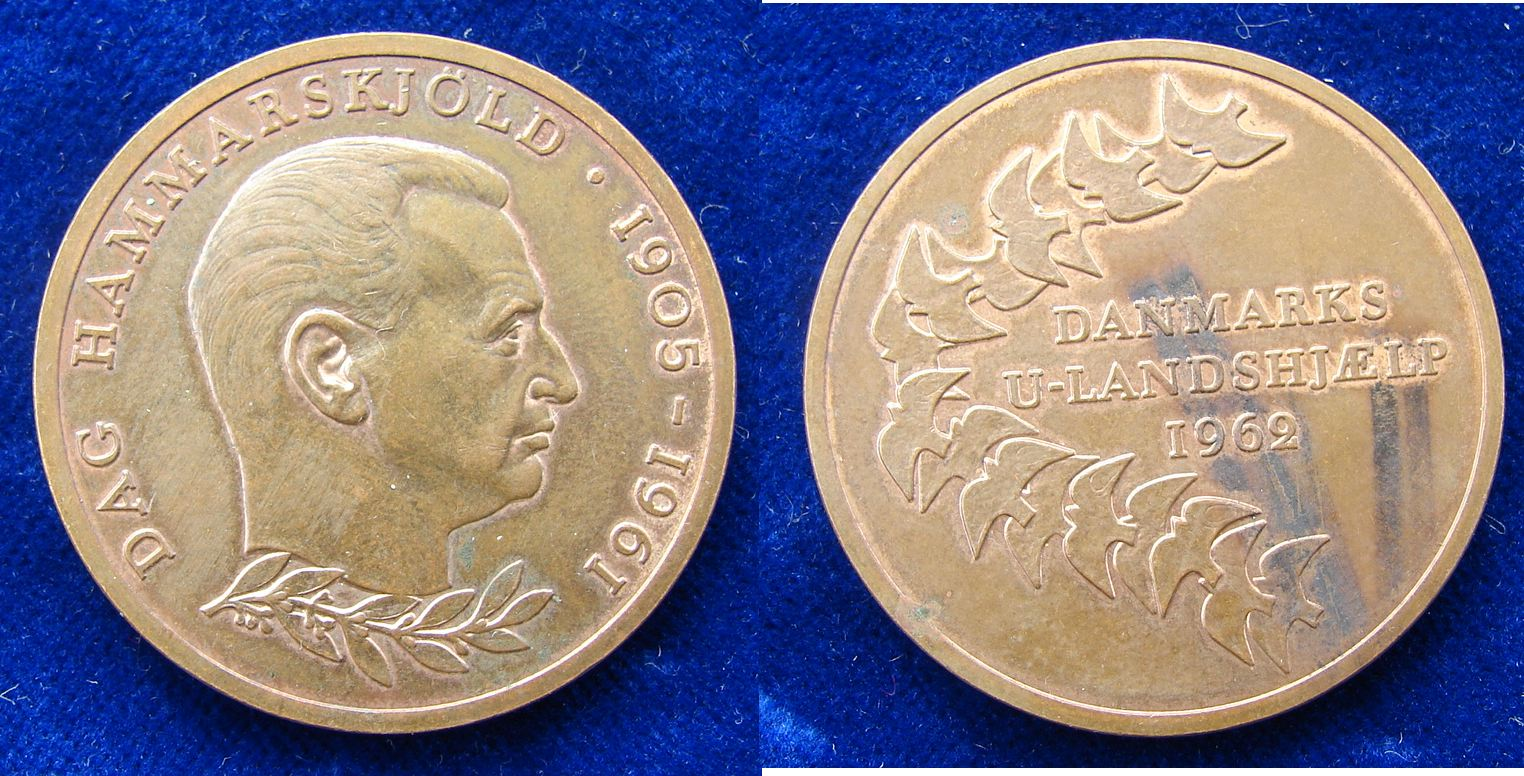 Denmark 1962 Bronze Medal Foreign Aid Program Diameter of this medallion: 38 mm. It has been sold by Danish banks in support of the Danish Development Aid Program. Hammarskjöld, Dag, 1905 Jönköping Sweden - 1961 near Ndola, Northern Rhodesia (now Zambia), Africa Head r. above a laurel branch, around: "DAG HAMMARSKJÖLD · 1905 - 1961" / Migrating Scandinavian geese flying l. in V- formation. 3 lines at r.: "DANMARKS U-LANDSHJÆLP 1962". Medallist: Harald Salomon, Jewish sculptor, Oslo, Norway, 1900 - 1990 Denmark. Condition : Nice VERY FINE, little tarnish.